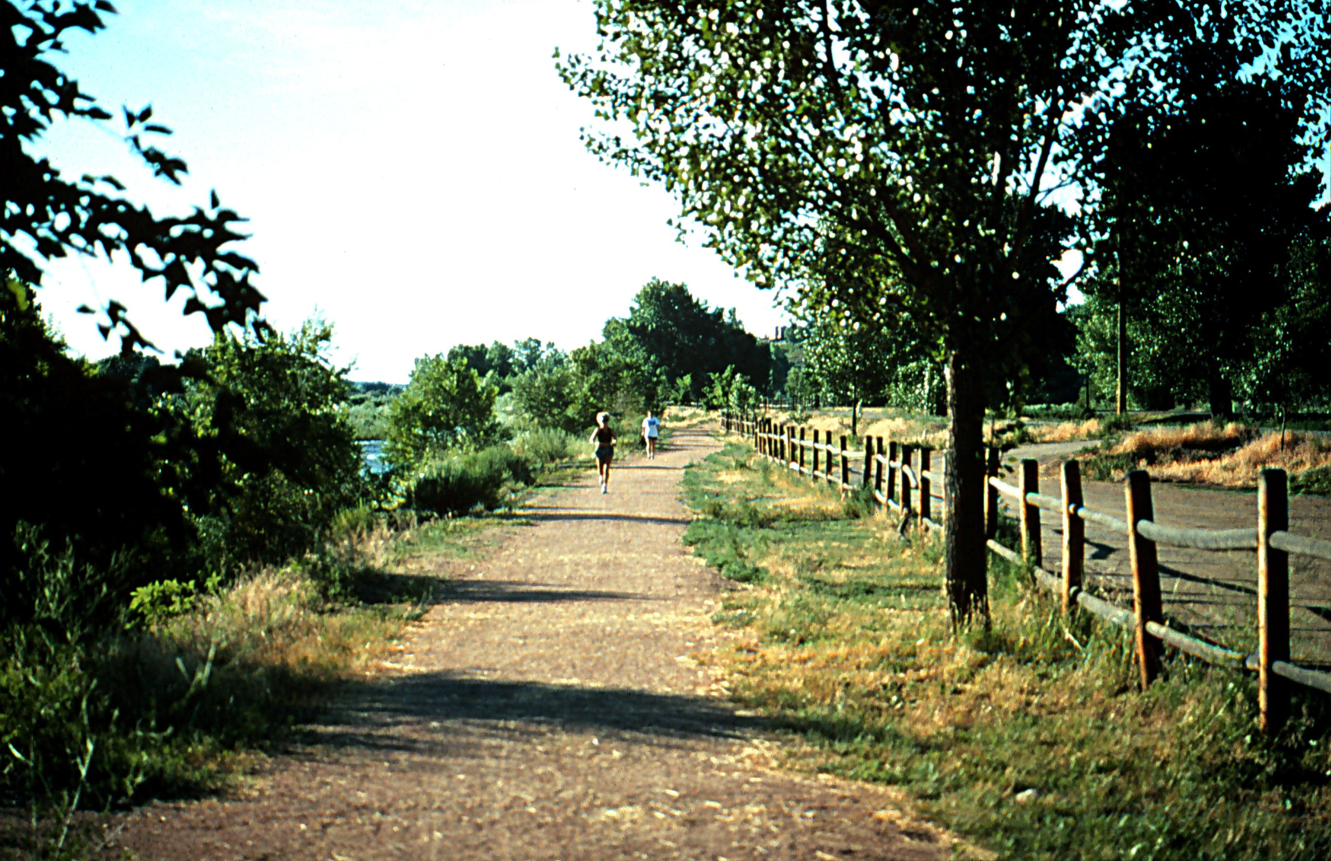 The Arkansas Riverwalk follows the Arkansas River in Cañon City, Colorado. It is popular with walkers, bicyclists, birders, and other outdoor enthusiasts.